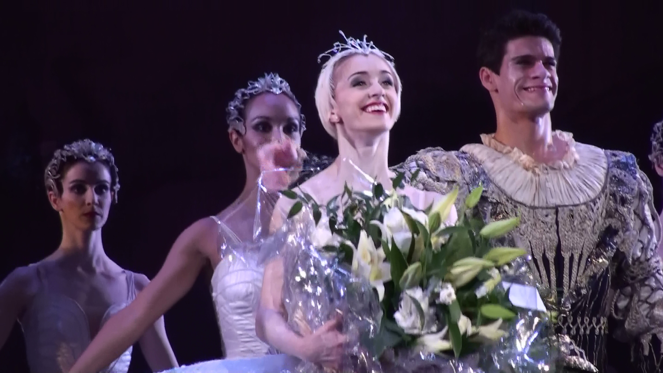 Marianela Nunez alongside Thaigo Soares takes curtain call for Swan Lake at Opening of Royal Ballet season 2008